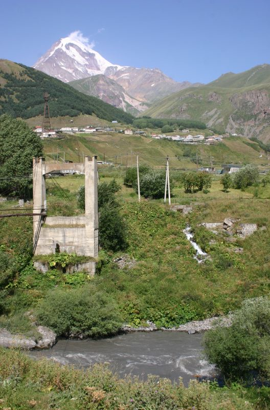 River in Kazbegi town